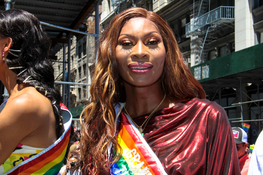 New York Pride 50 - 2019-123